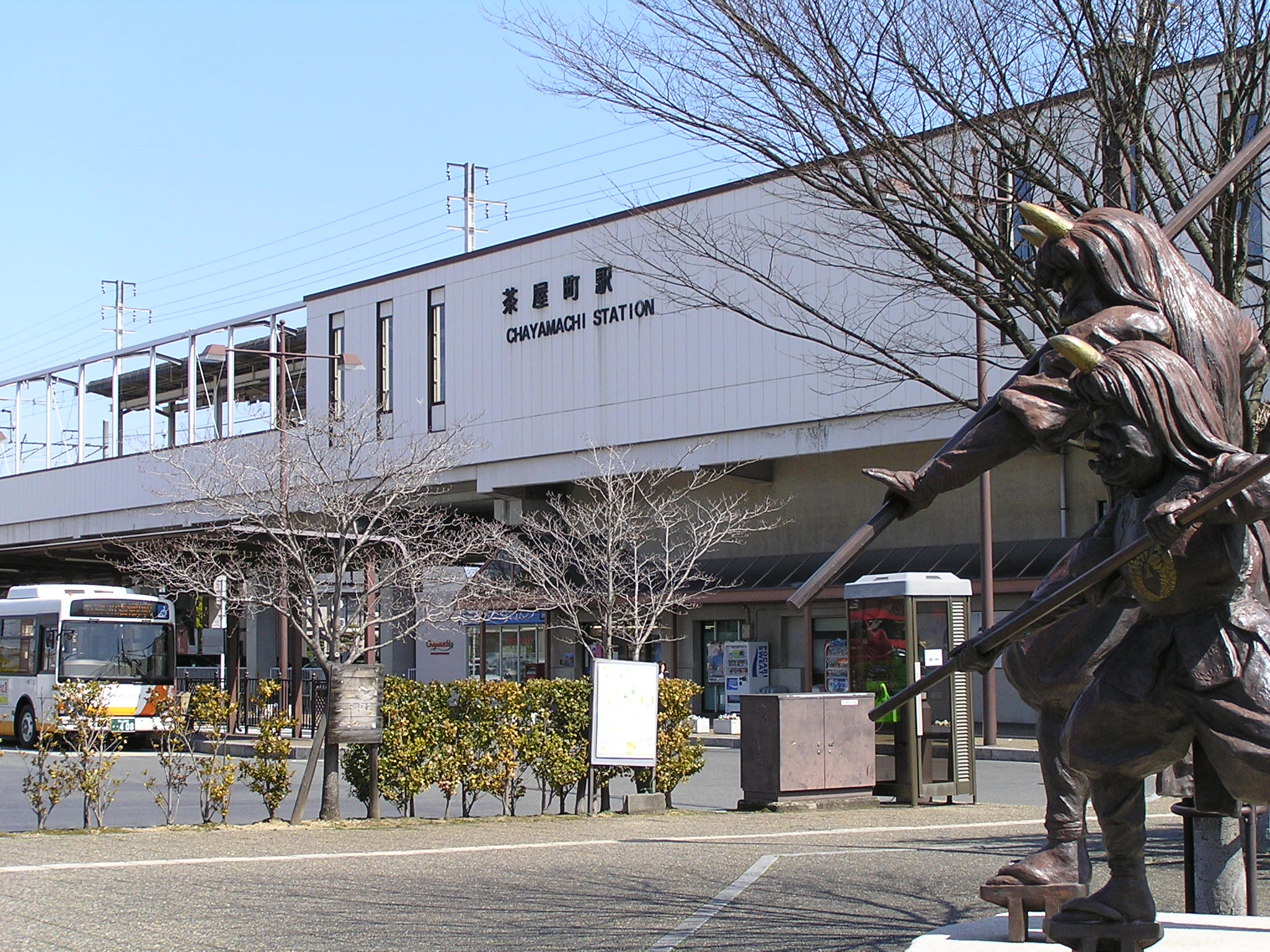 West Japan Railway Company Uno Line, Honshi Bisan Line, Chayamachi Station west entrance